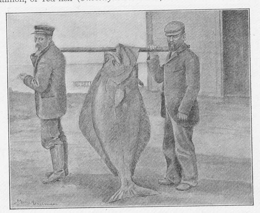 Halibut, Hippoglossus hippoglossus (Linnaeus). Sp Paul Island, Bering Sea Subject: Halibut, Atlantic halibut, Fishers Tag: Fish